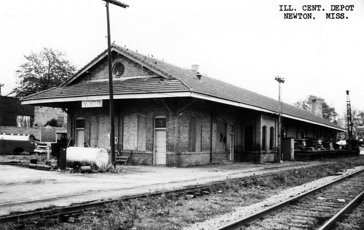 Collection: Railroad Depot Postcard Collection Call number: PI/1987.0009 System ID: 77407 Illinois Central Depot, Newton, Miss., May 1968. Please see our profile page for information on ordering. Scanned as tiff in 2008/11/12 by MDAH. Credit: Courtesy of the Mississippi Department of Archives and History